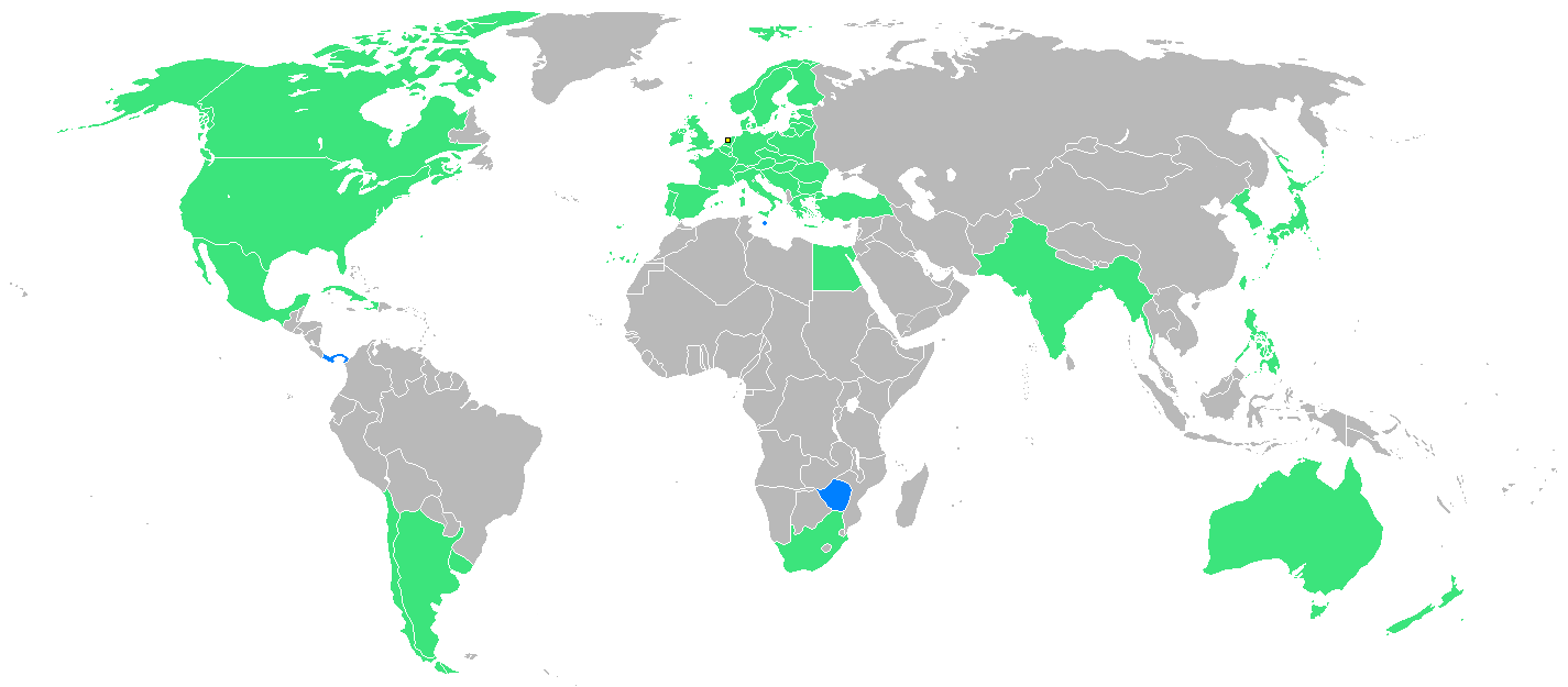 Countries which participated in the 1928 Summer Olympics, derived from blank world map and Image:1928 Summer Olympic games countries.png. Blue = Participating for the first time Green = Have previously participated. Yellow square is host city (Amsterdam).